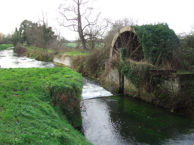 Old bone mill wheel